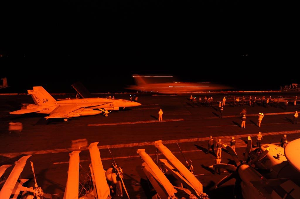 FA-18 launch from U.S.S George H.W. Bush to attack IS targets in Syria